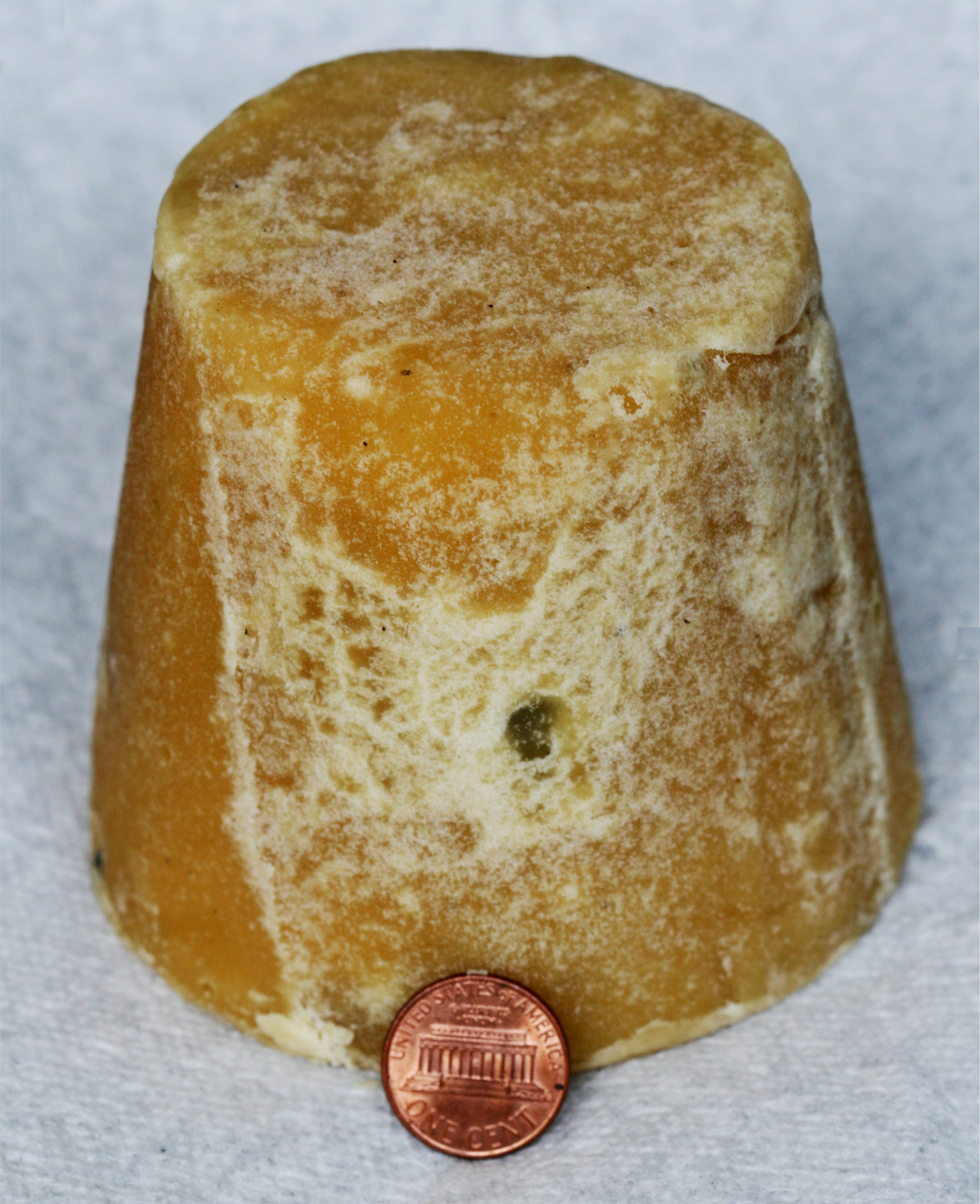 Jaggery used in Indian/Pakistani cuisine. It is also known as "gud" in Hindi and "GUR" in Urdu